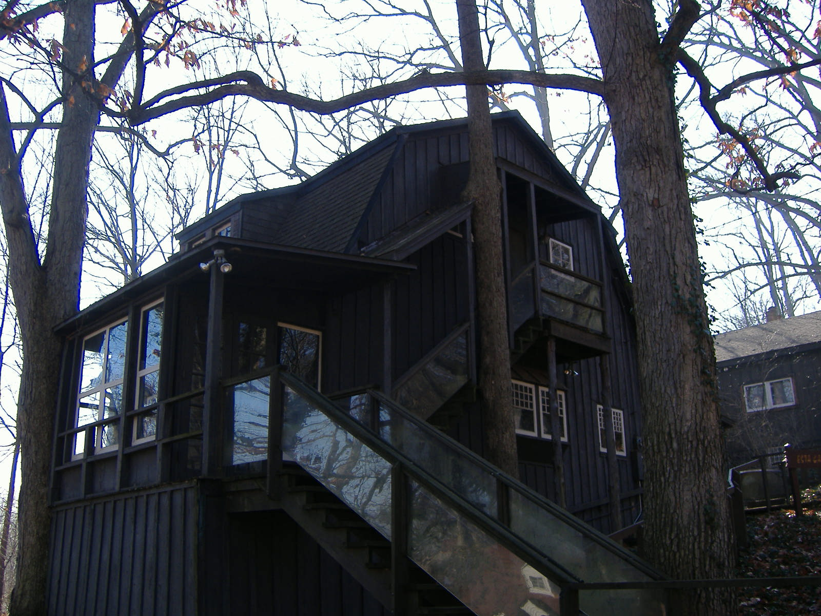 Esta Cabin of the Little Loomhouse of Louisville, Kentucky.